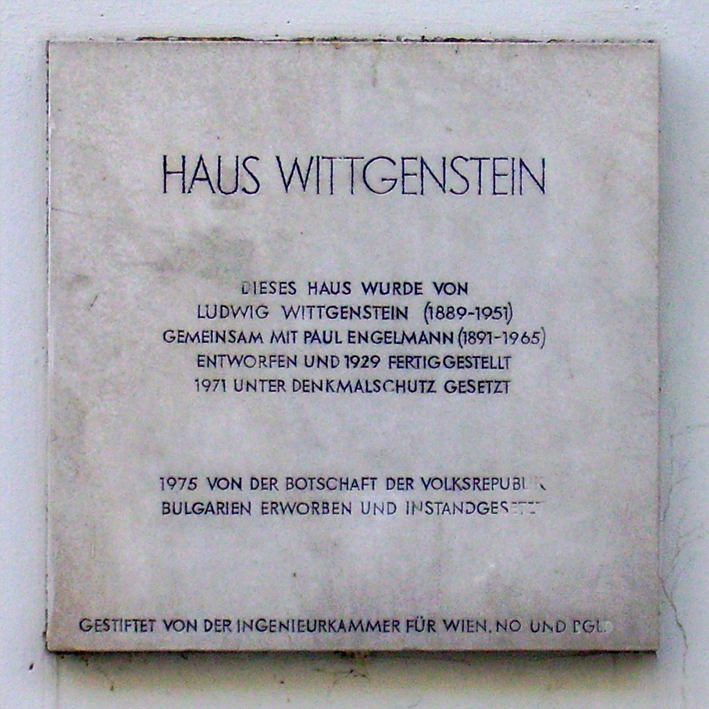 Memorial plaque at the Haus Wittgenstein in Vienna, Parkgasse 18